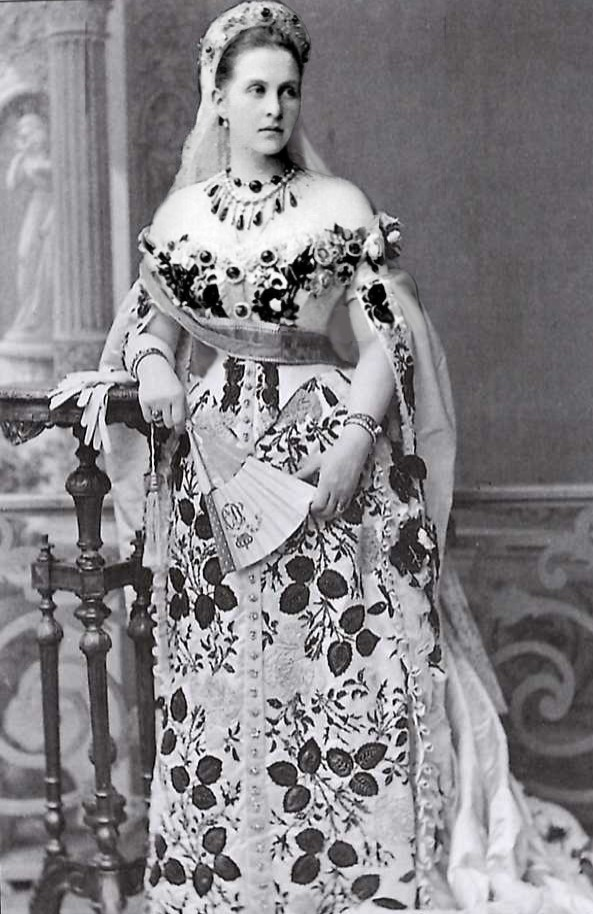 Olga Constantinovna of Russia, later Queen of Greece